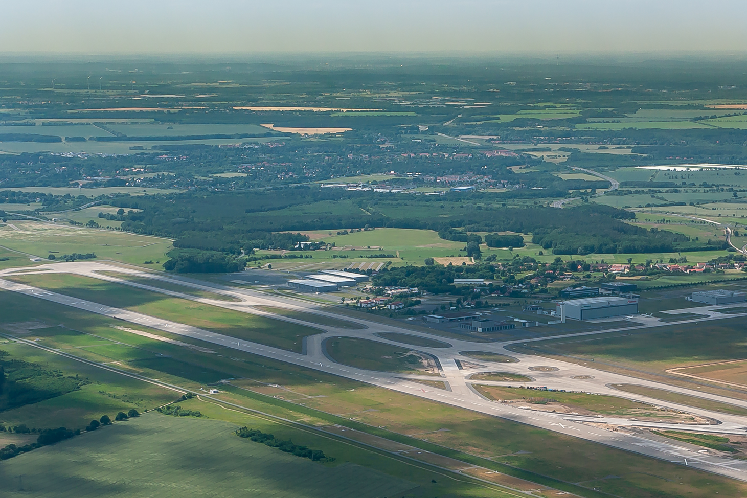 Berlin ExpoCenter Airport in 2019